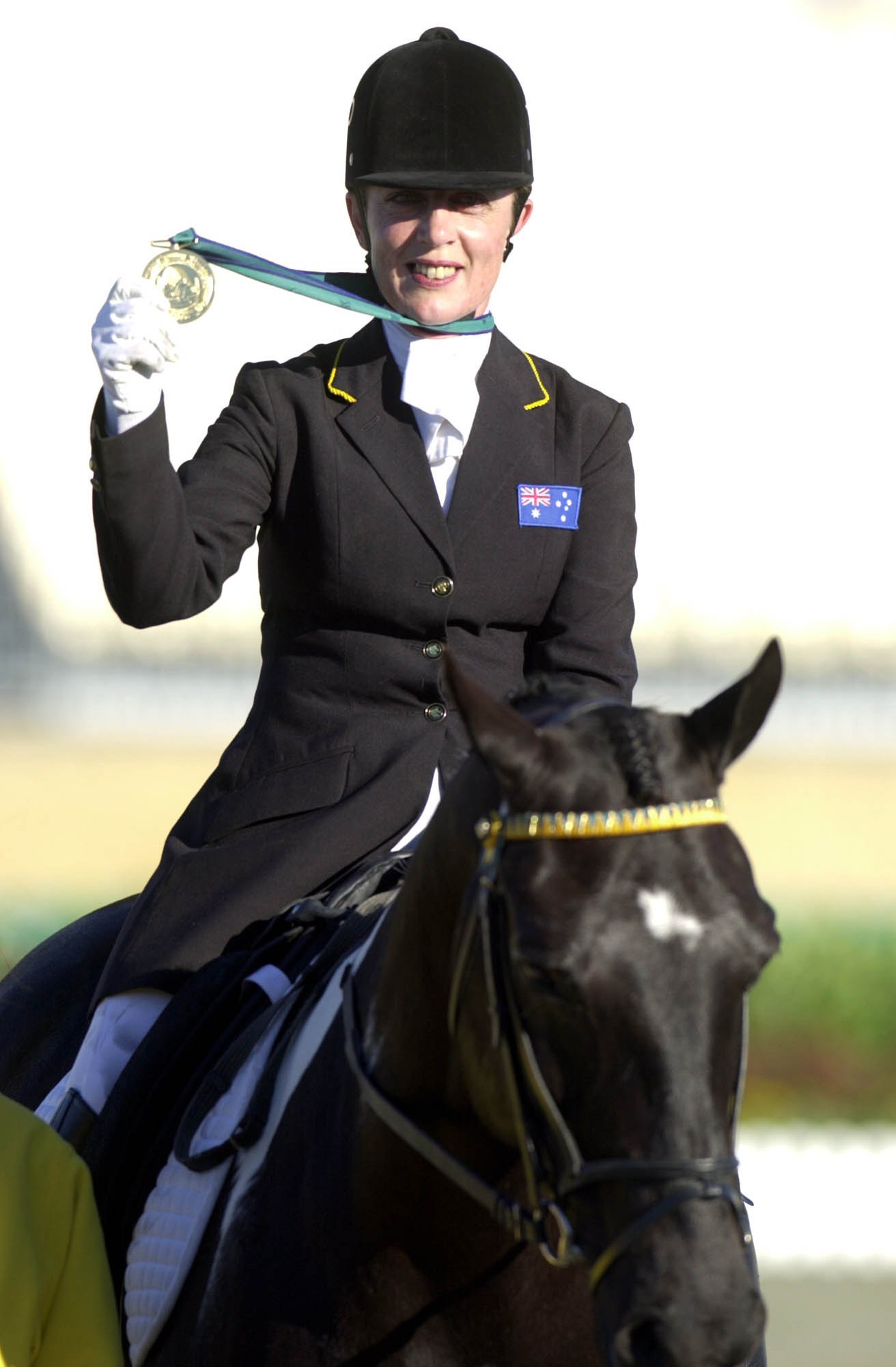 Australian equestrian Julie Higgins with her gold medal won at the 2000 Sydney Paralympic Games Individual Dressage Grade 3 competition